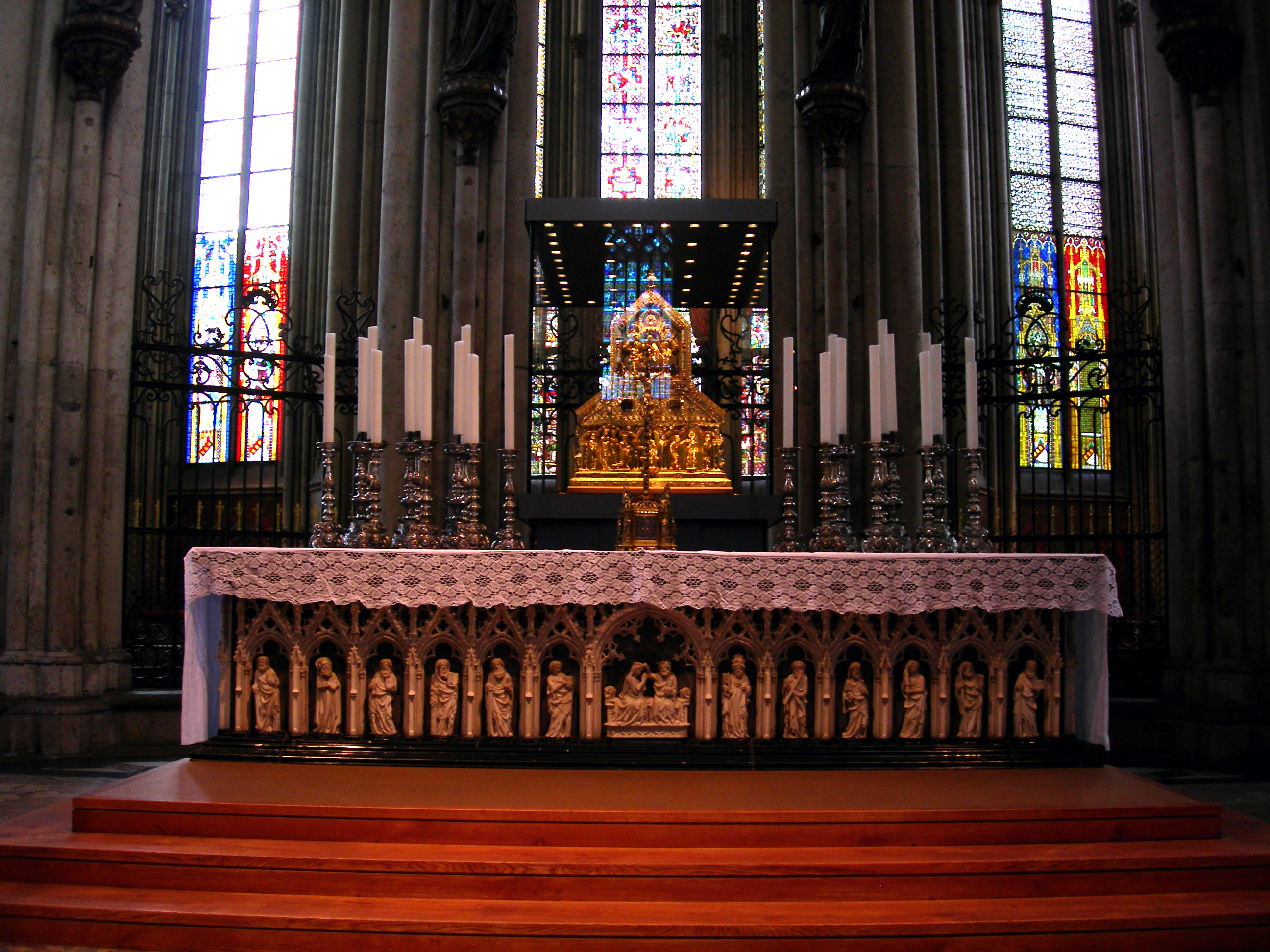 Dreikonigenschrein_koeln_und_Altar 동방박사 유물함과 제단